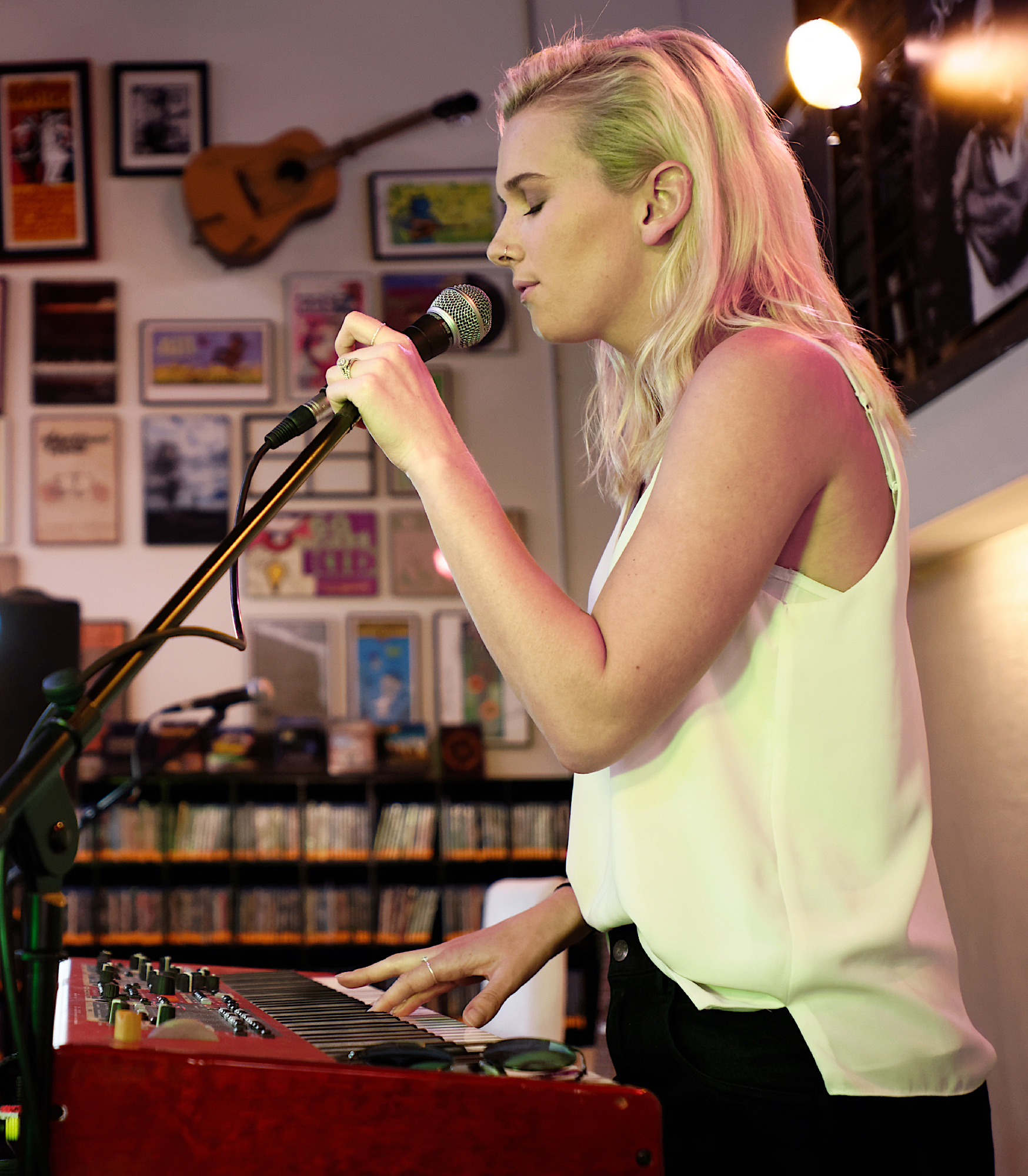 Georgia Nott from Broods performing at Fingerprints Music in Long Beach, Los Angeles, California, on Thursday June 30th, 2016.